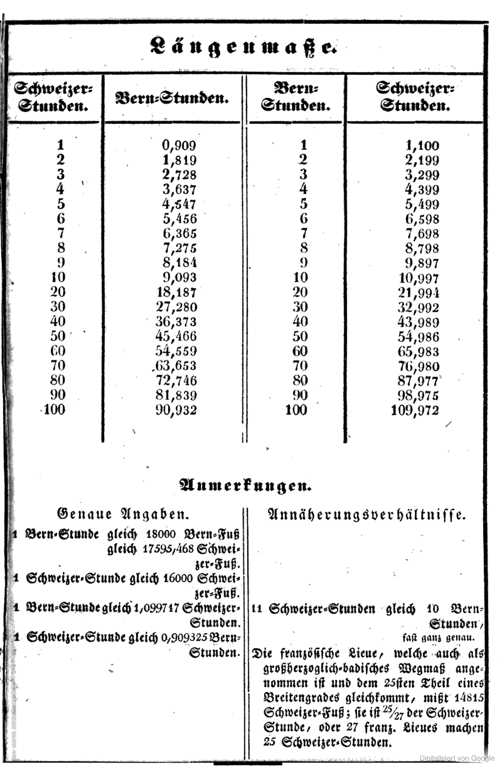 Comparison of Swiss and Bernese Hour (1837)